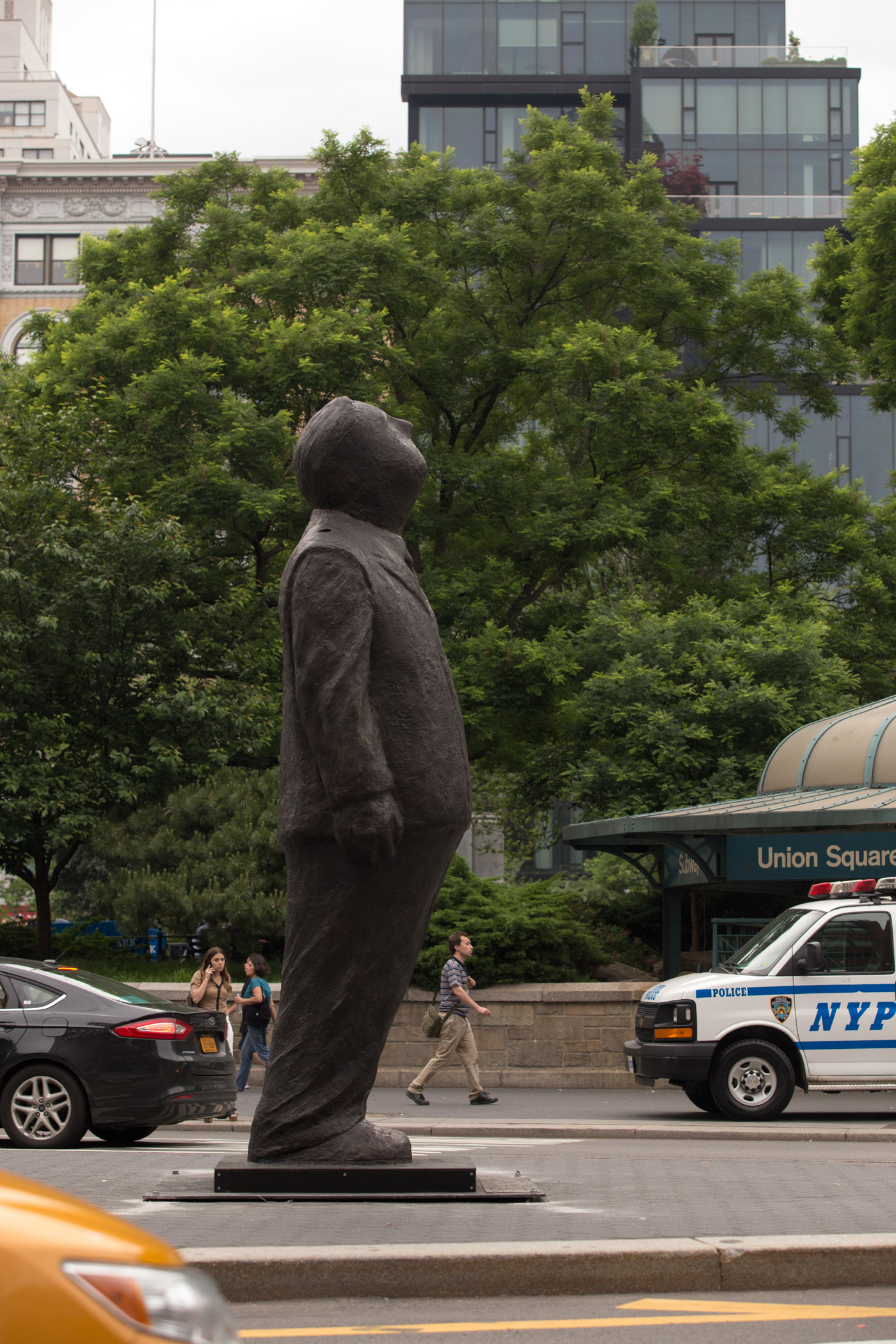 Jim Rennert's Think Big during its installation at Times Square in 2014.